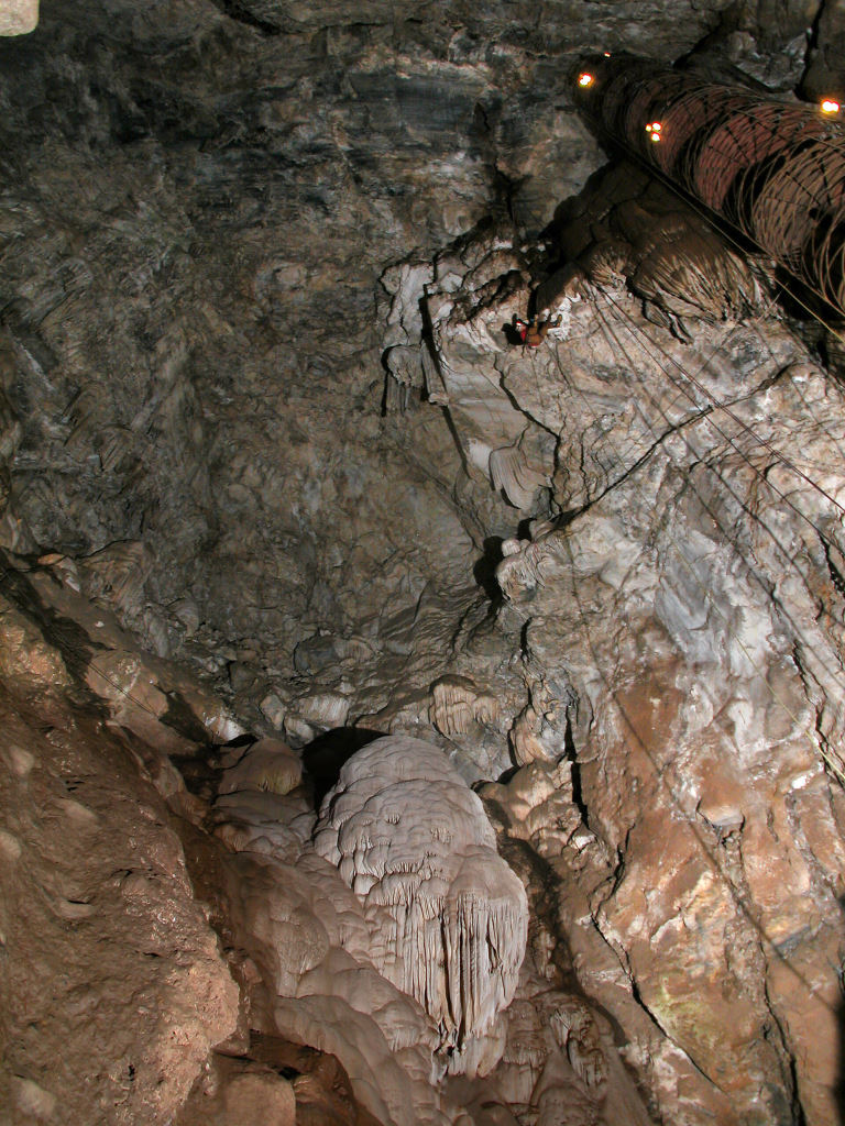 A view from the bottom of the Moaning Cave shaft and terminus of the walking tour. A caver is visible on rope doing the rappel, with the top of the spiral staircase to the right. The large "igloo" stalagmite is seen on the left.